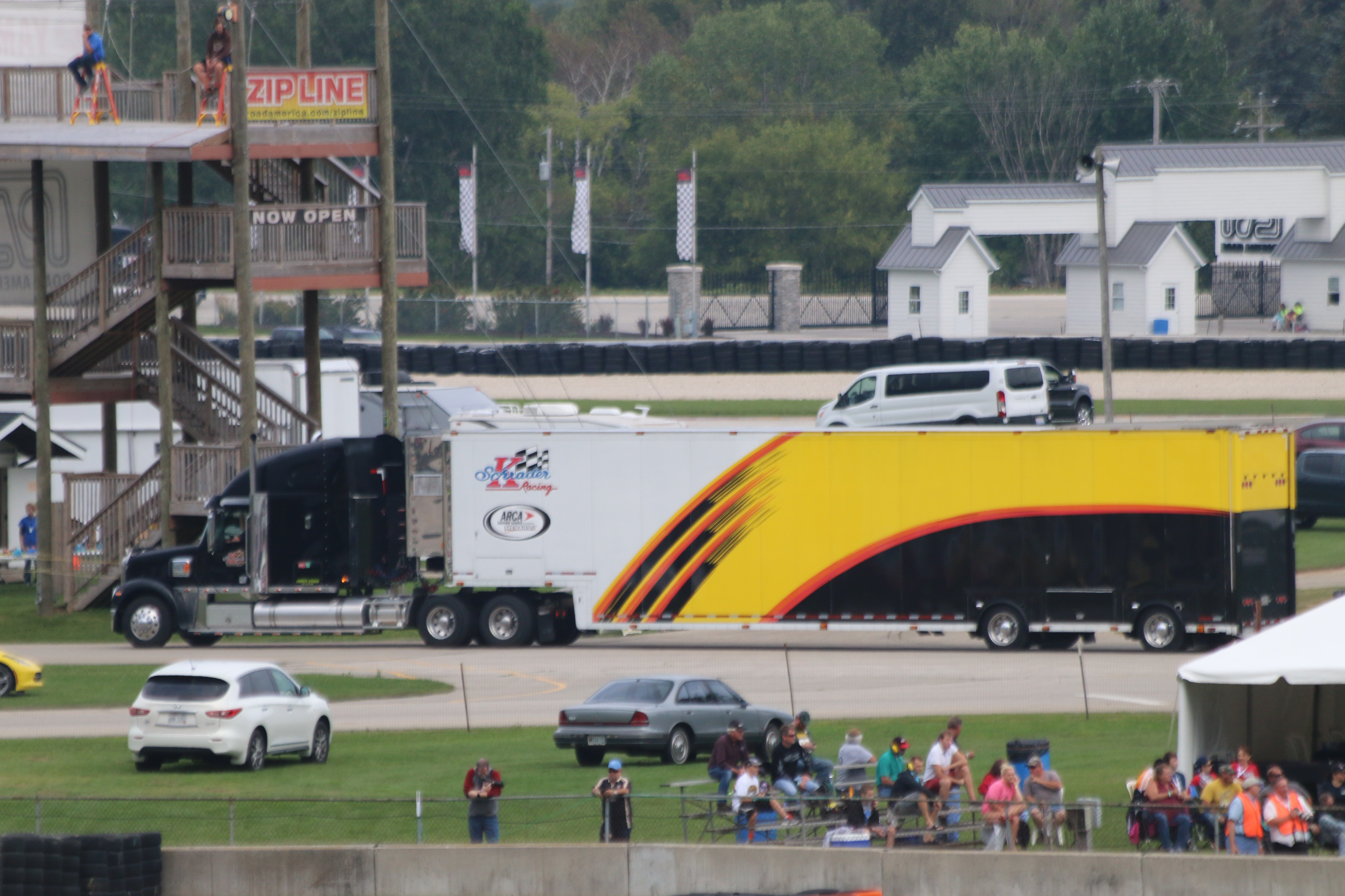 The ARCA Racing Series hauler of Ken Schrader Racing leaving the 2017 Road America 100 race.